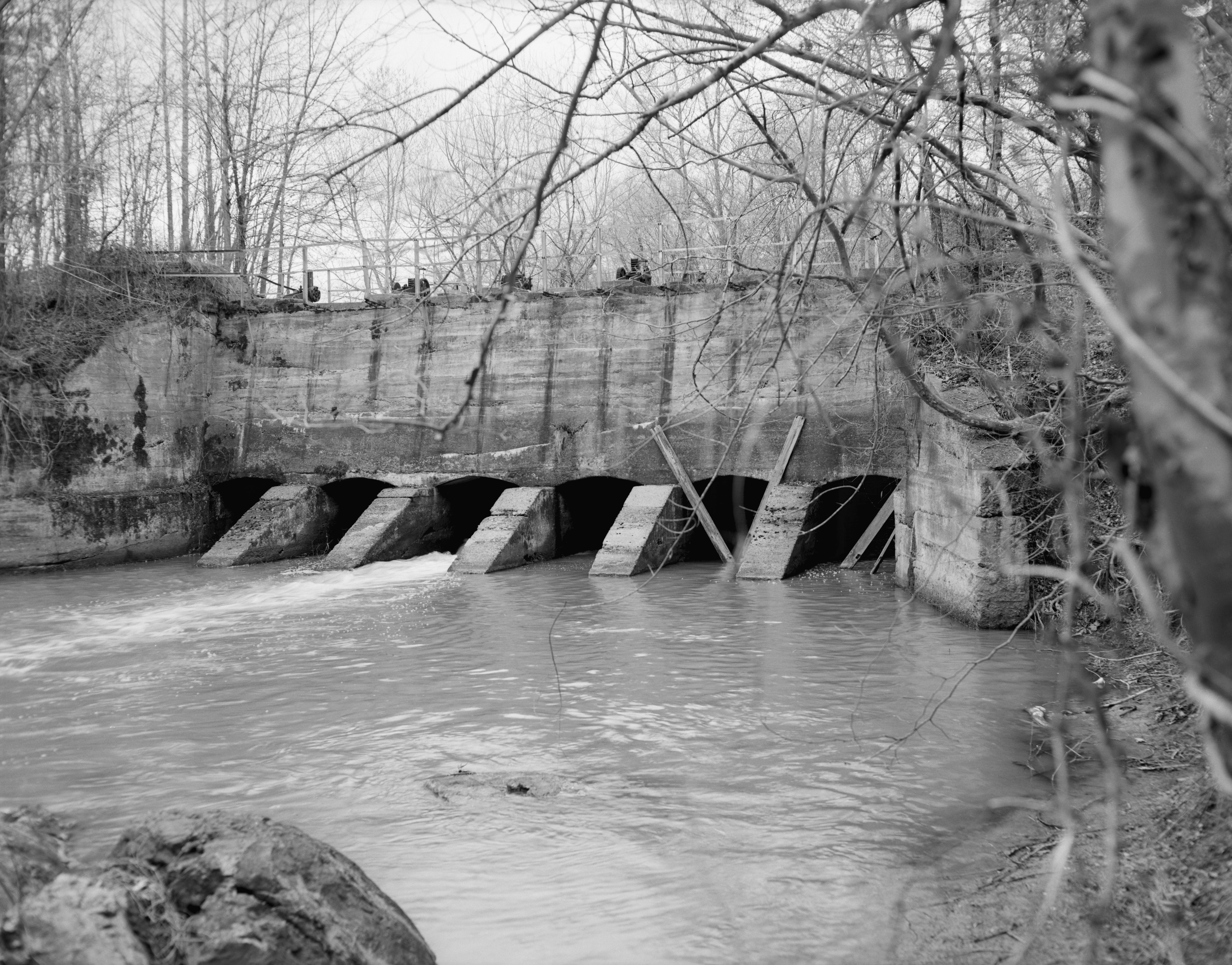 Lockville Hydroelectric Plant, Deep River, 3.5 miles upstream from Haw River, Moncure (Chatham County, North Carolina)